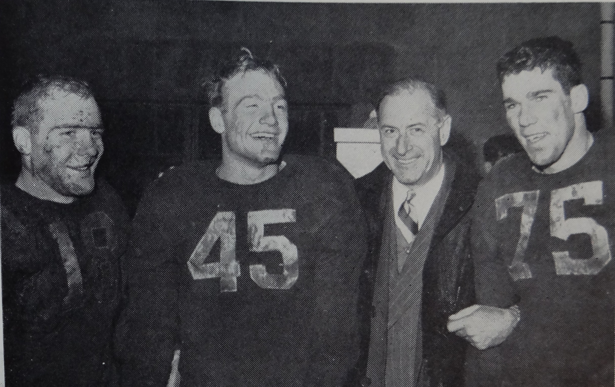 Bump Elliott, Pete Elliott, Fritz Crisler and Bruce Hilkene celebrate after Michigan clinched a Big Nine championship with a victory over Wisconsin Bump Elliott, Pete Elliott, Fritz Crisler and Bruce Hilkene celebrate after Michigan clinched a Big Nine championship with a victory over Wisconsin